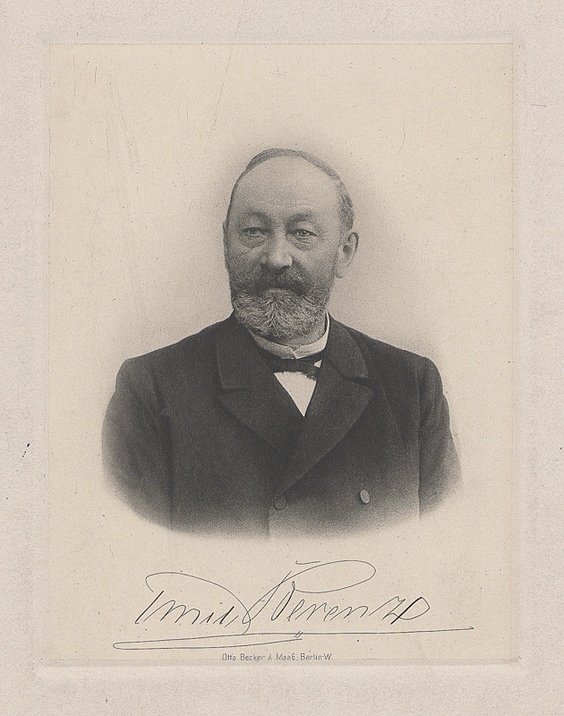 Family heirloom , created in 1903